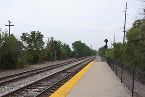 Platform at the closed Greenfield Village station in August 2015